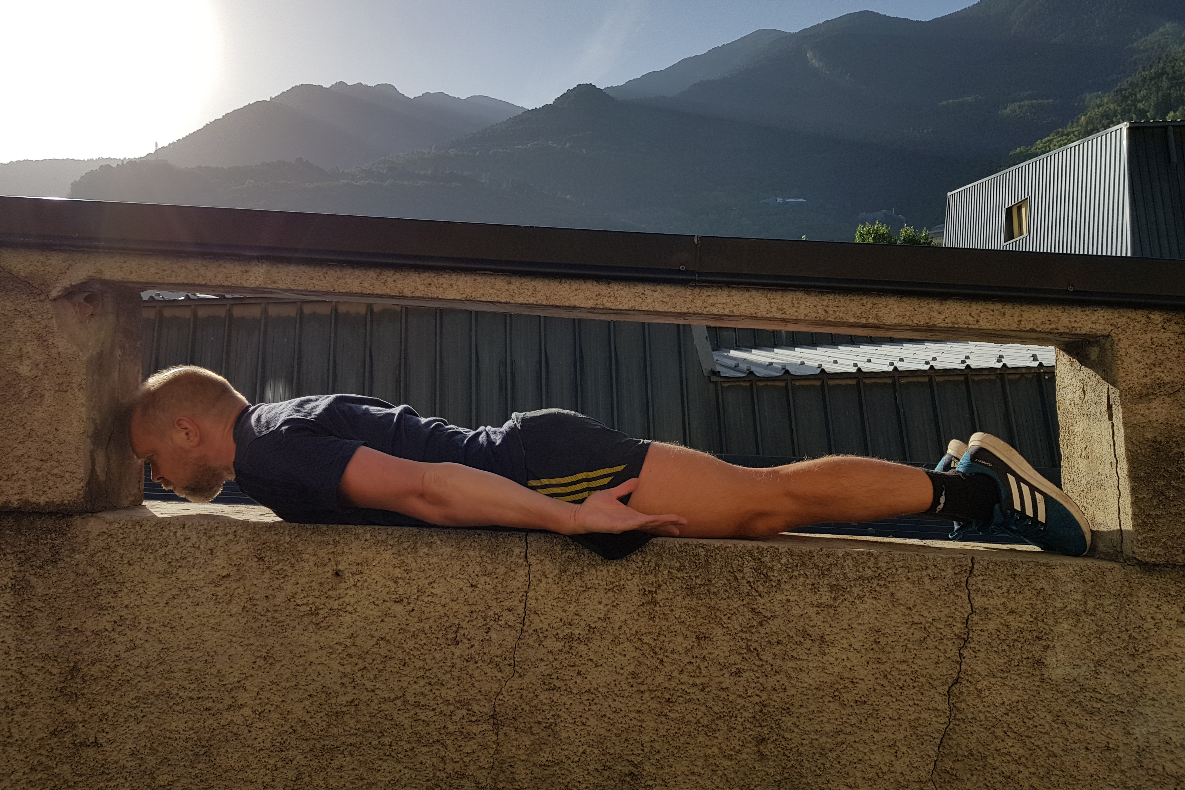 The artist Alexis Dworsky performs and interacts with architecture.